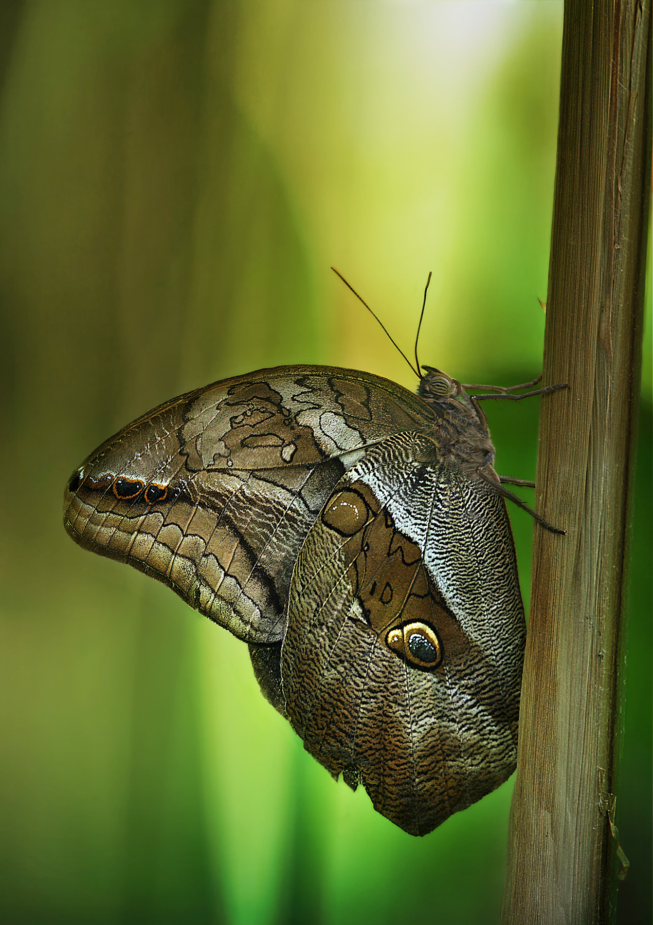 A butterfly of the genus Eryphanis, in the brush-footed butterfly family Nymphalidae.